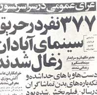 cinema rex fire headline: "377 people burnt in fire at cnema of Abadan"